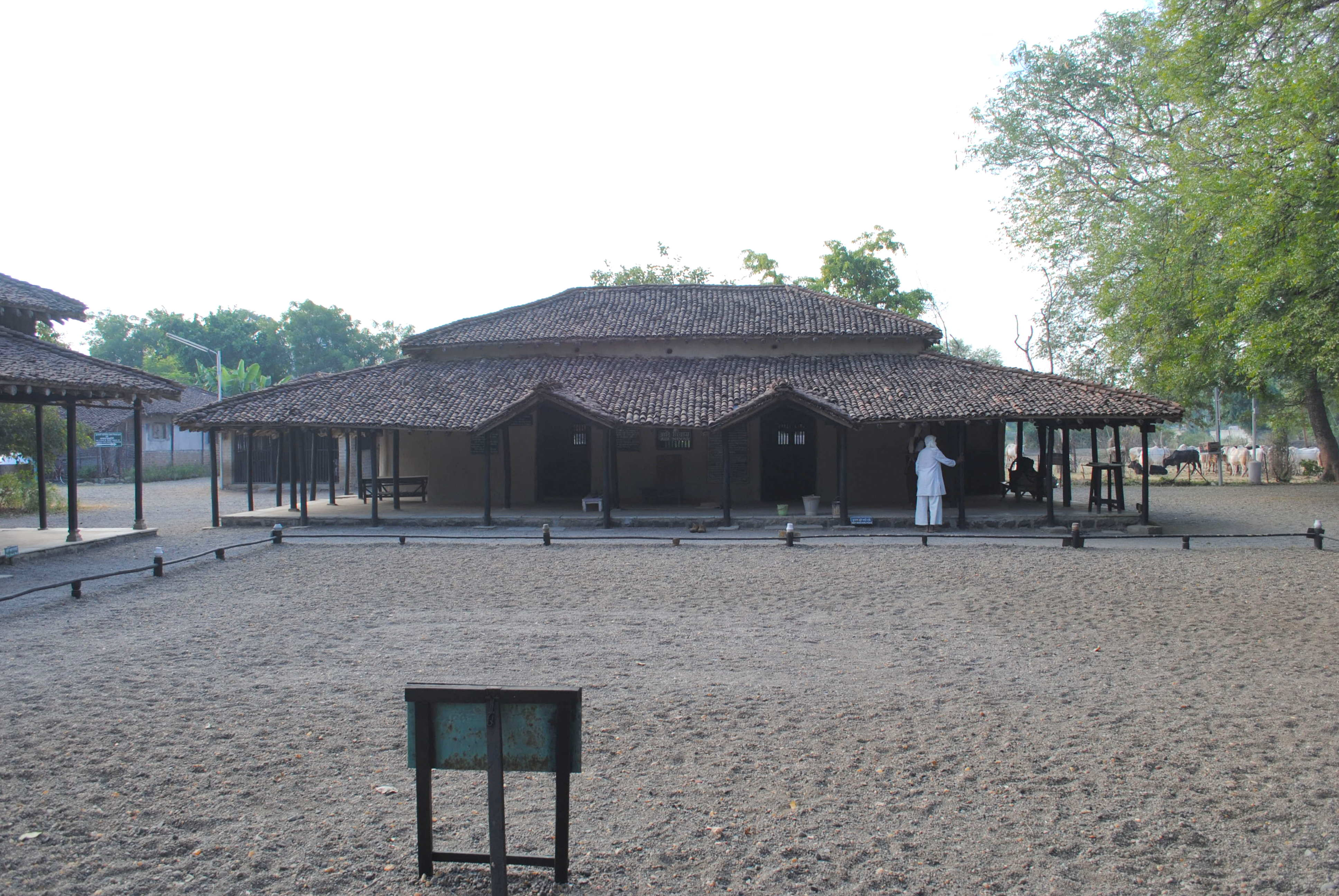 Adi Nivas was the first residence of Mahtama Gandhi in Sewagram Ashram. It was built at a cost of 100 rupees, utilising only local artisans and material. The first meeting of Quit India Movement was held in this cottage 1942.